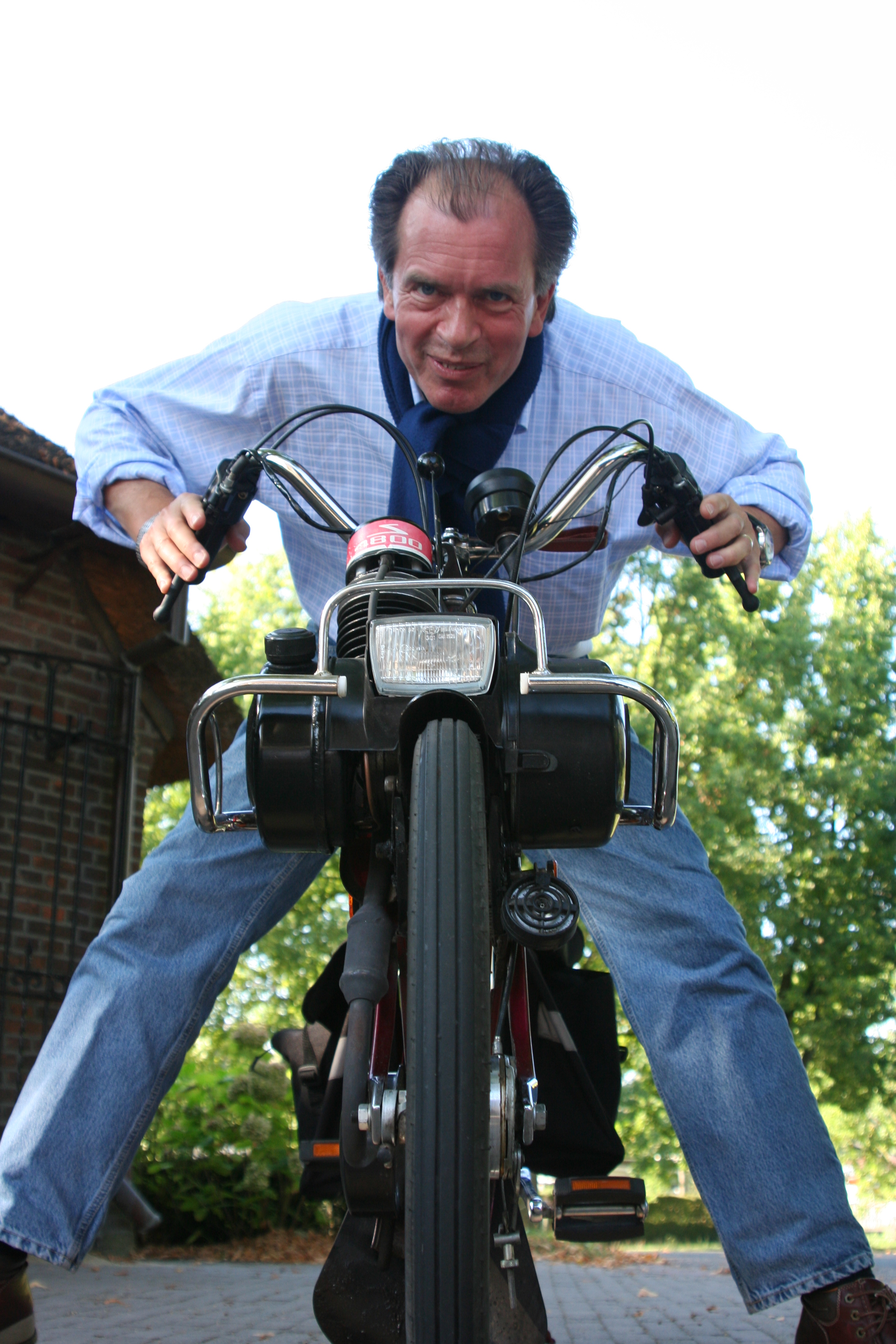 Harry Lintsen on a Solex.